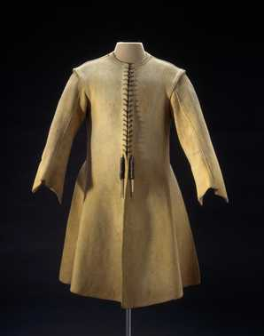 Men’s Buff coat (Gambeson), ca. 1660-1670. Collection Centraal Museum, Utrecht. Photo: Centraal Museum, Utrecht / Dea Rijper